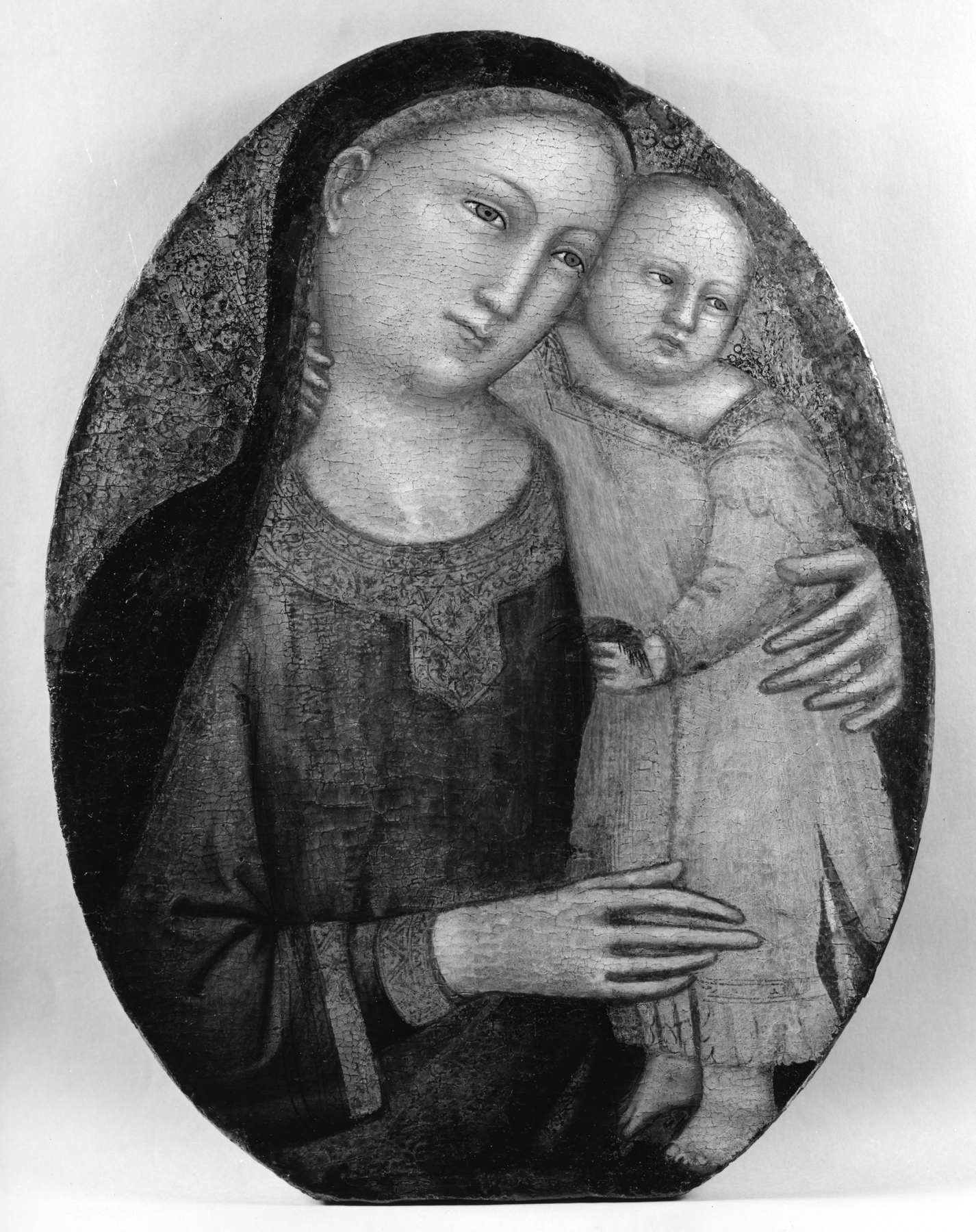 For more information on this panel, please see Zeri catalogue number 13, p. 22.